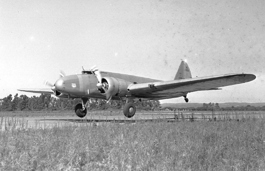 Boeing247DunitedTakeoff40